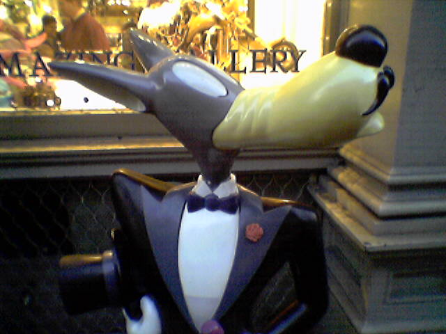 Tex Avery character statue. Stands approx. 4' tall. Animazing Gallery, Grand Street, Soho, NYC ANIMAZING GALLERY